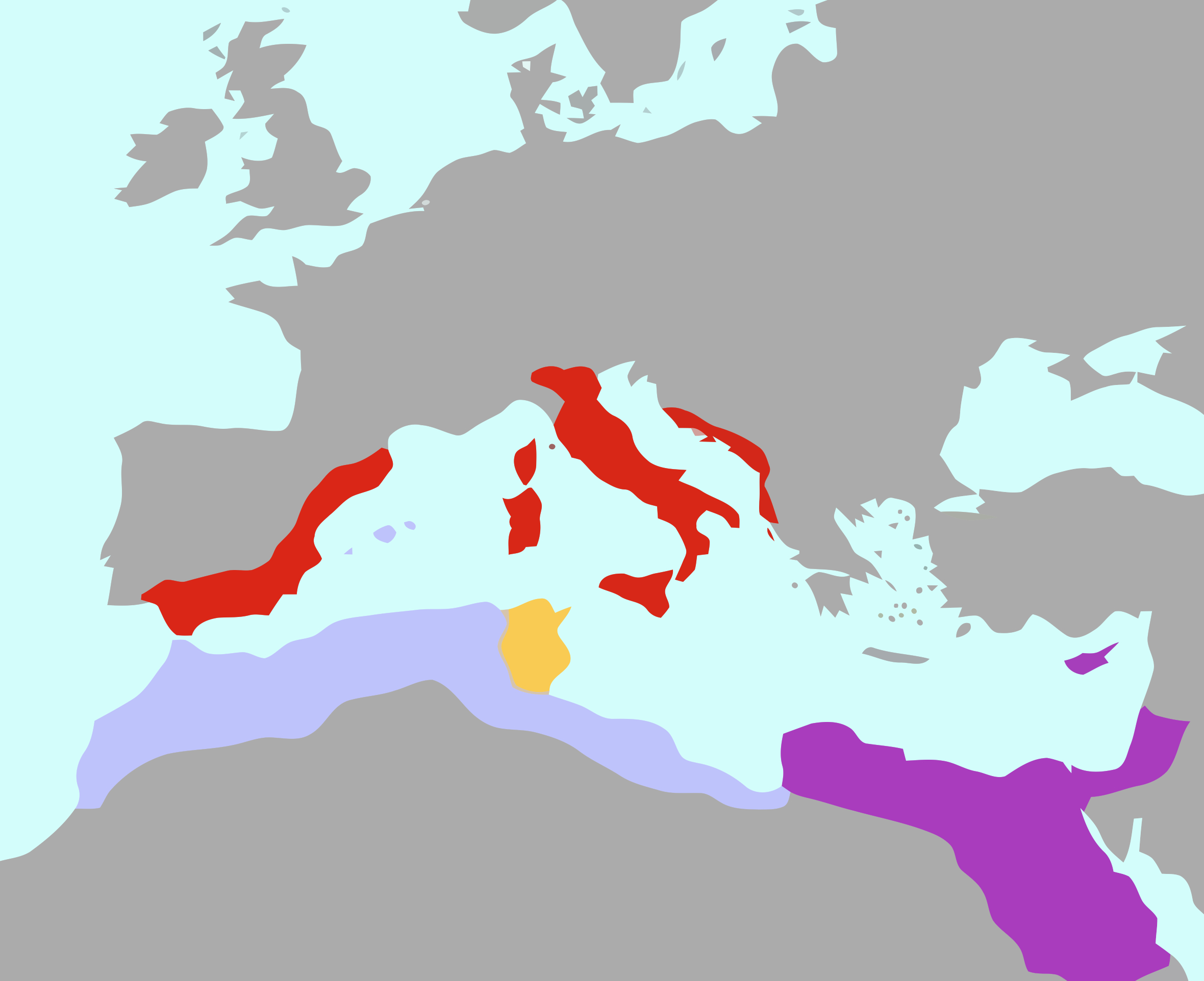 Egypt, Rome, Carthage and Numidia